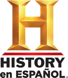 History en Español logo.